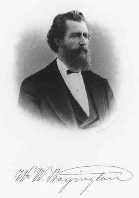 Image and signature of the Chicago architect William W. Boyington c. 1860